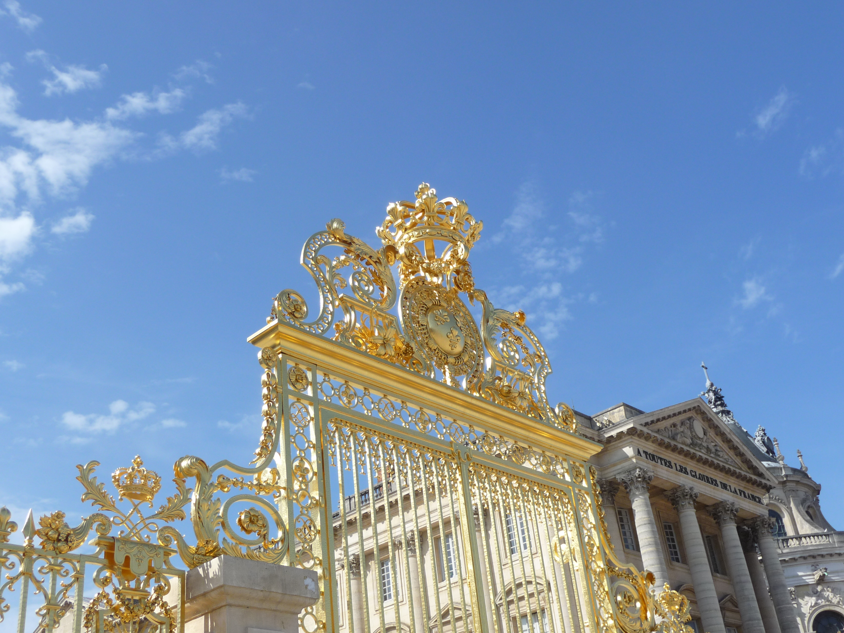 An image of a golden gate at Versailles.